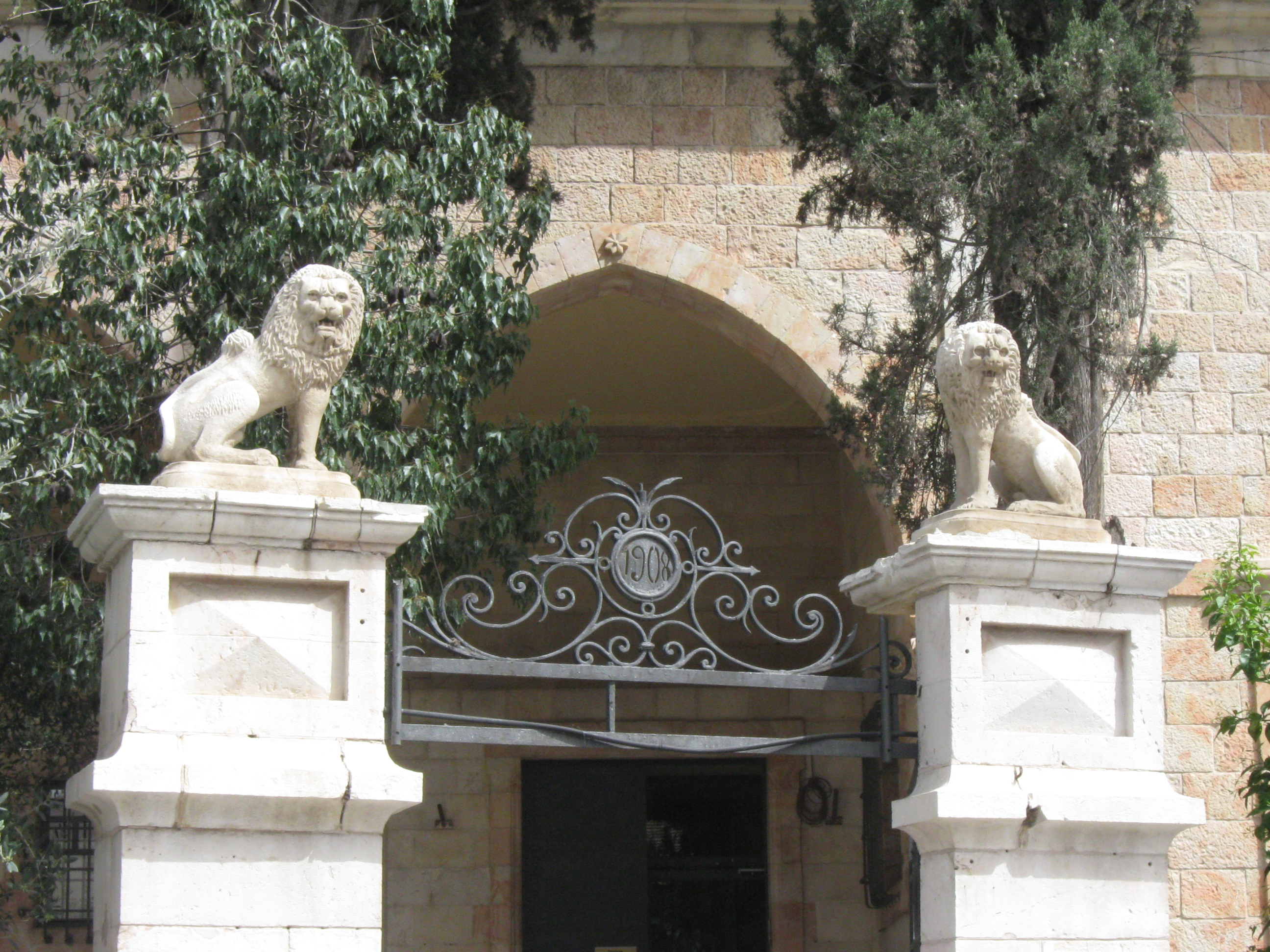 Close-up of the entrance gate in front of the Mashiach Borochoff House, Jaffa Road, Jerusalem, featuring lion statues on pillars and the date of establishment (1908)